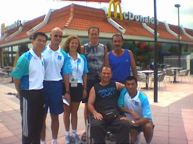 Mile Stojkoski with participants at the Athens 2004 Summer Olympic Games